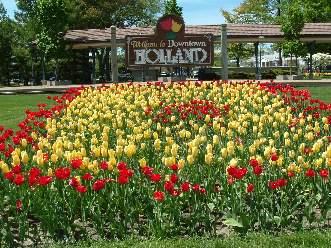 The sign welcoming visitors to downtown Holland, Michigan, United States, with tulips in full bloom.